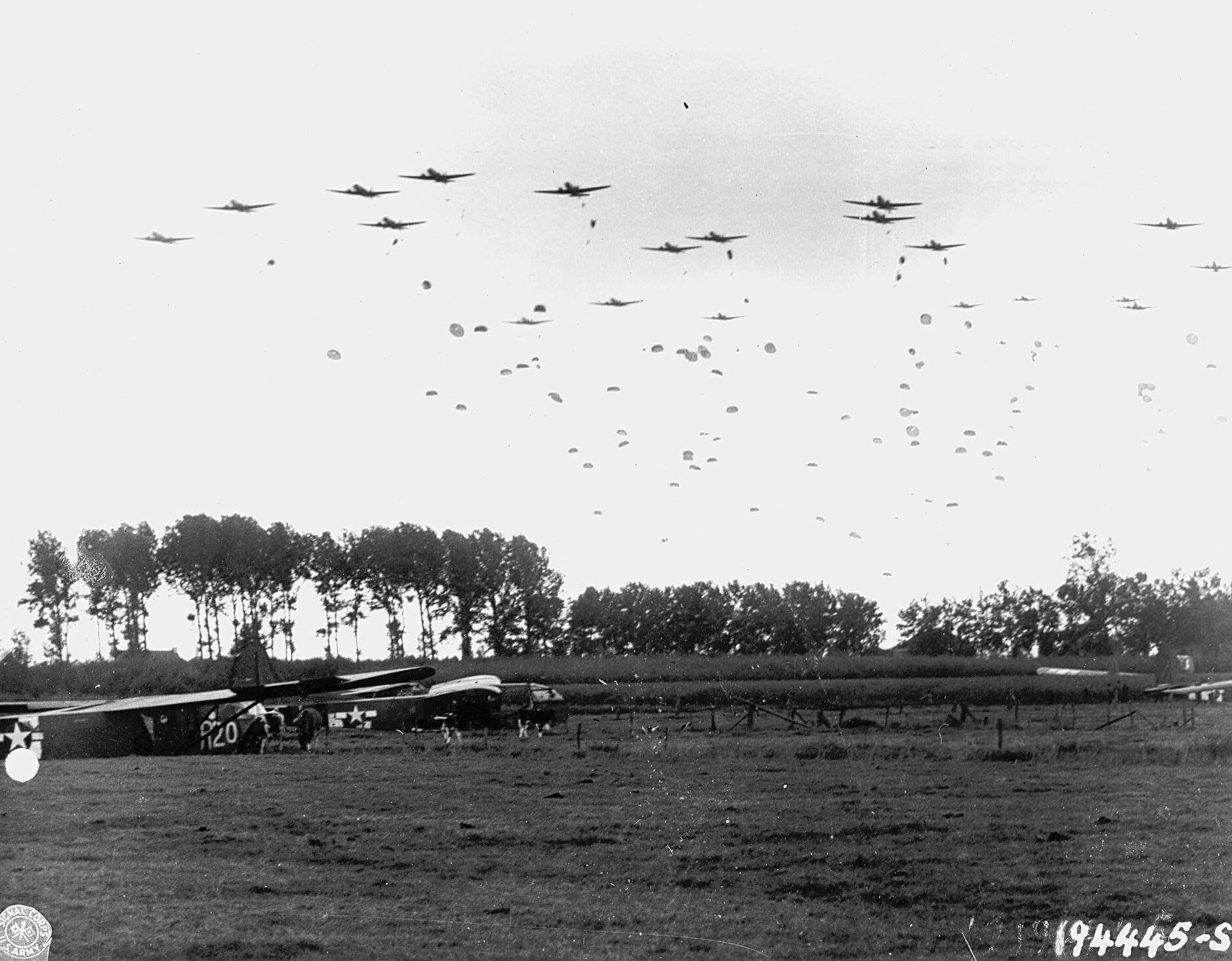 US Army paratroopers are dropped near Grave, Netherlands while livestock graze near gliders that landed earlier. This was the beginning of Operation Market Garden during World War II, which resulted in heavy Allied losses.